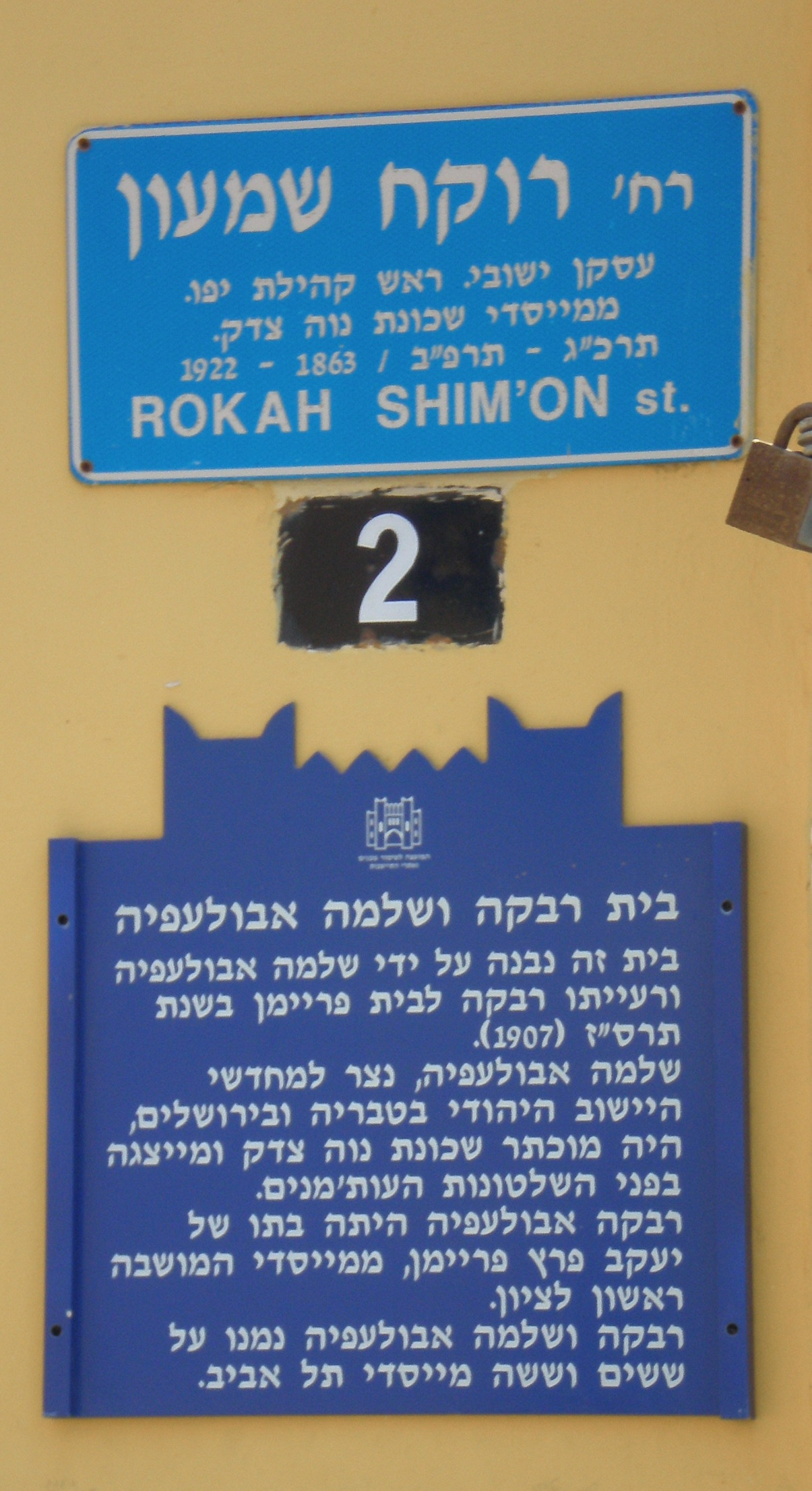 Plaque next to house of Rivka and Shlomo Abulafia, 2 Rokah Shim'on St., Neve Tzedek, Tel Aviv, Israel.